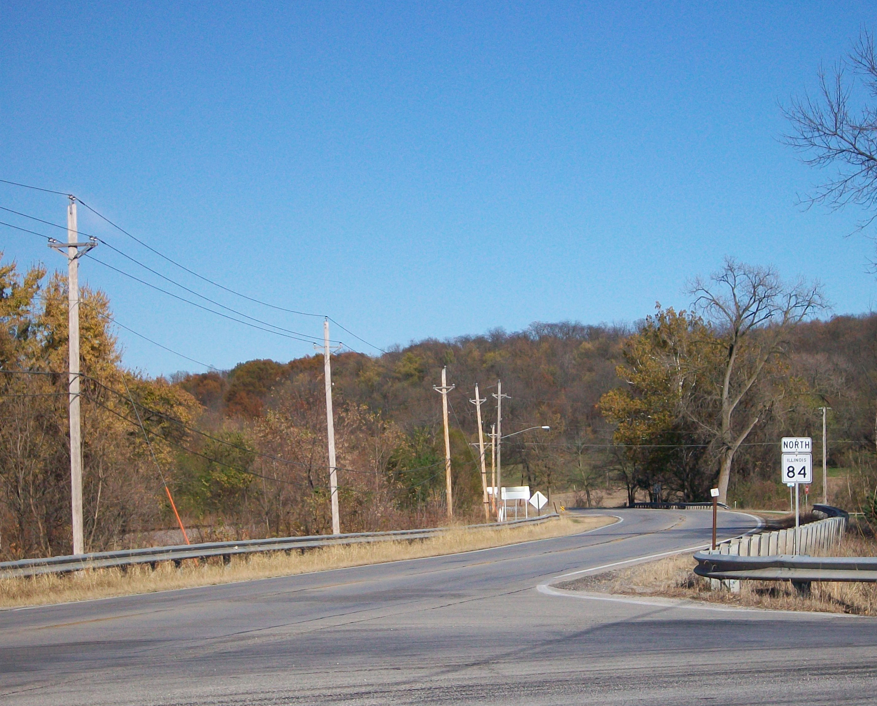 Illinois 84 (2nd Avenue) eastbound from 12th Street (County Highway EE), Rapids City, Illinois